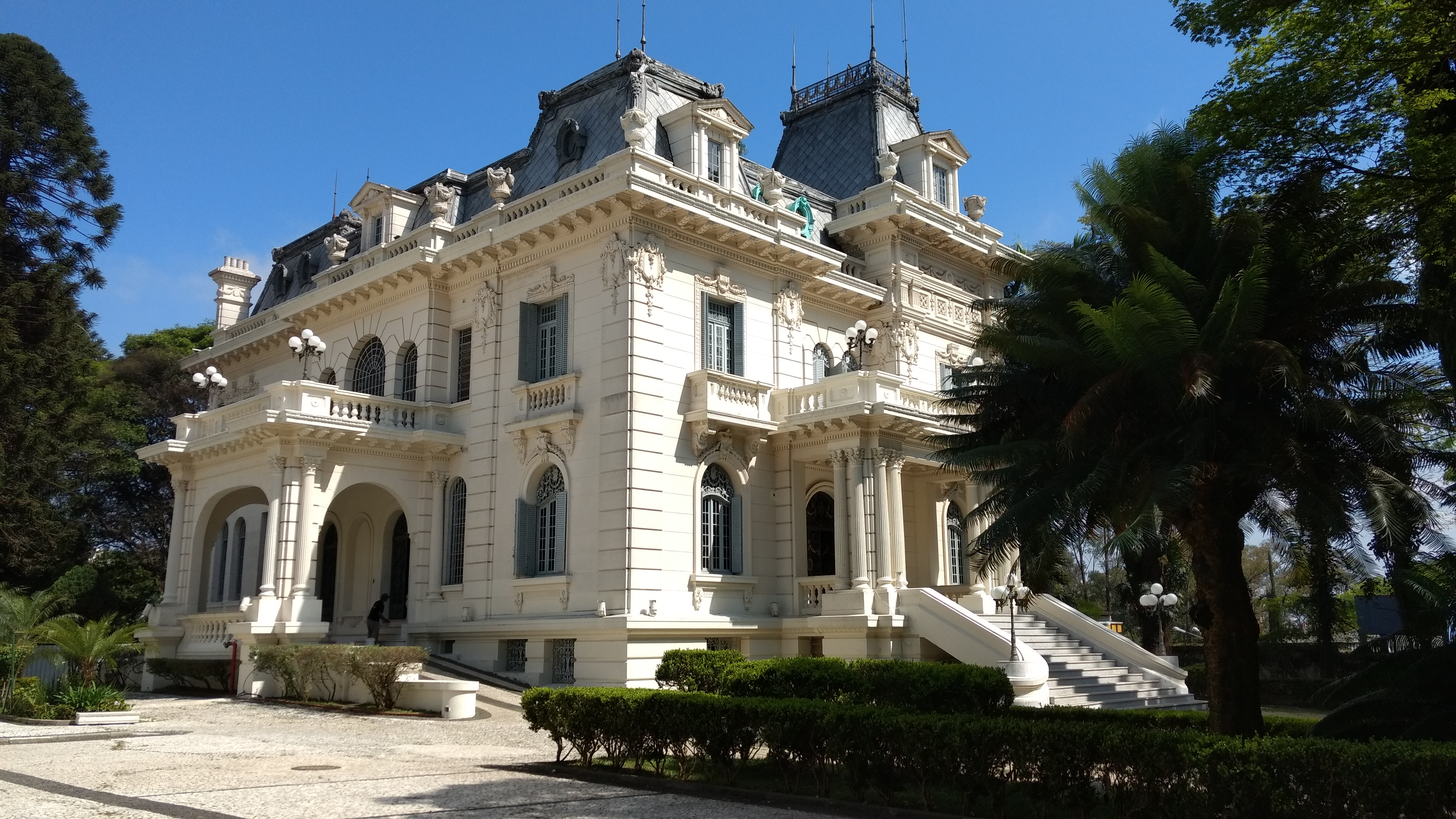 Fachada da lateral esquerda da Residência da Família Jafet, 730.